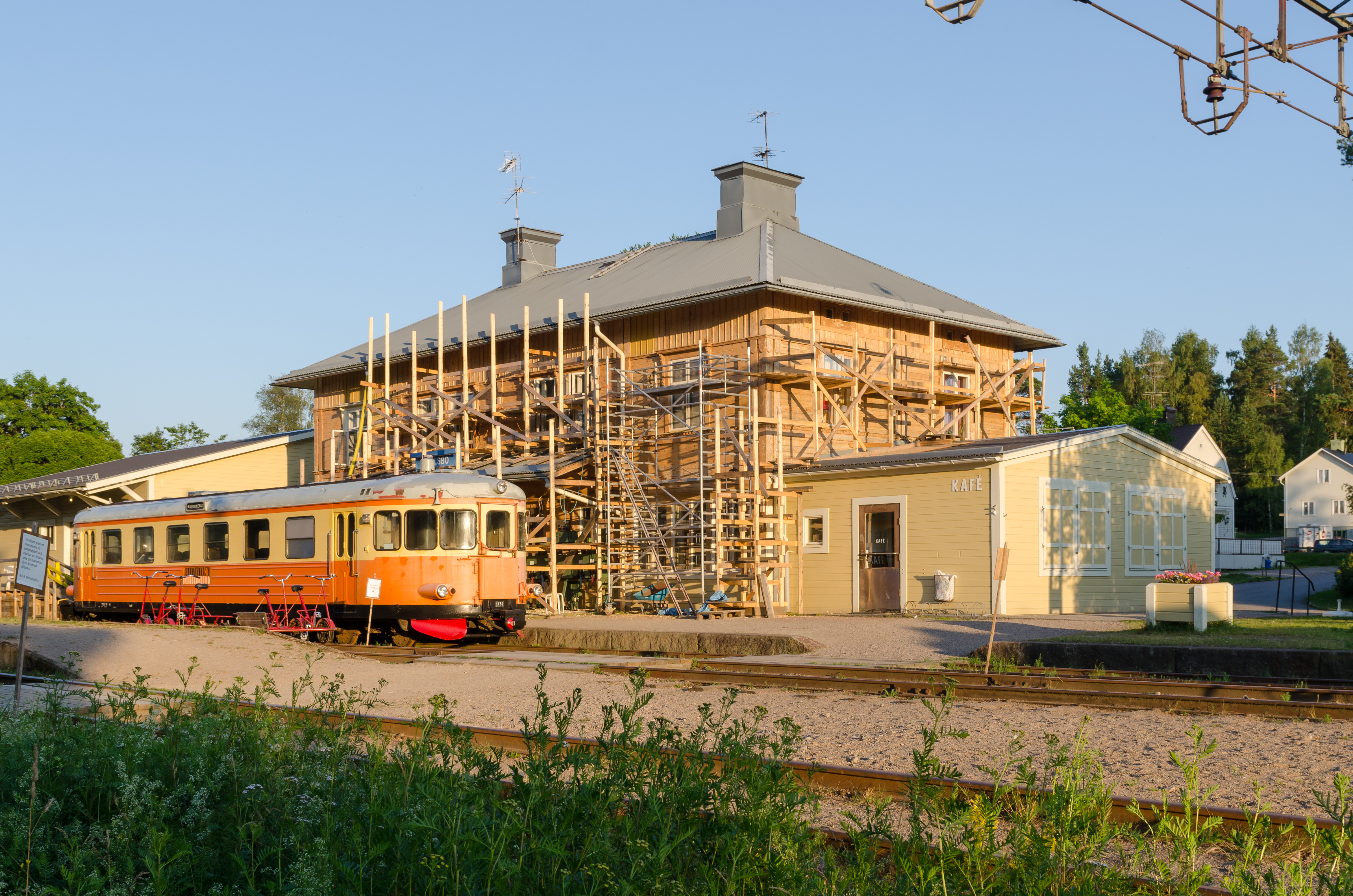 Y8 diesel railcar at Delsbo station, Dellenbanan railway. The railway was closed 1986, but the railcar is used for museum traffic in the summer.